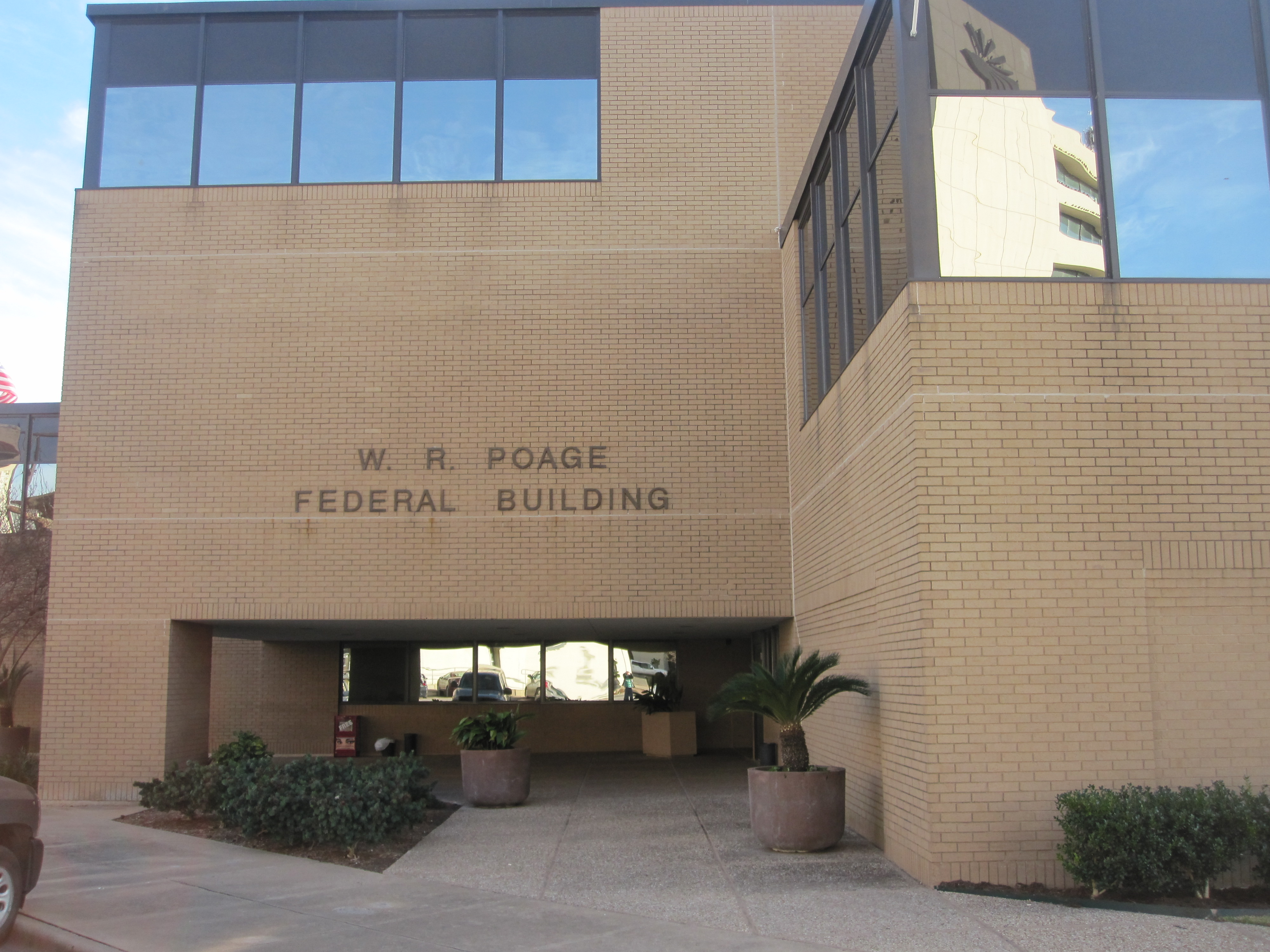 The W.R. Poage Federal Building in Temple, TX, named for the late U.S. Representative W.R. Poage